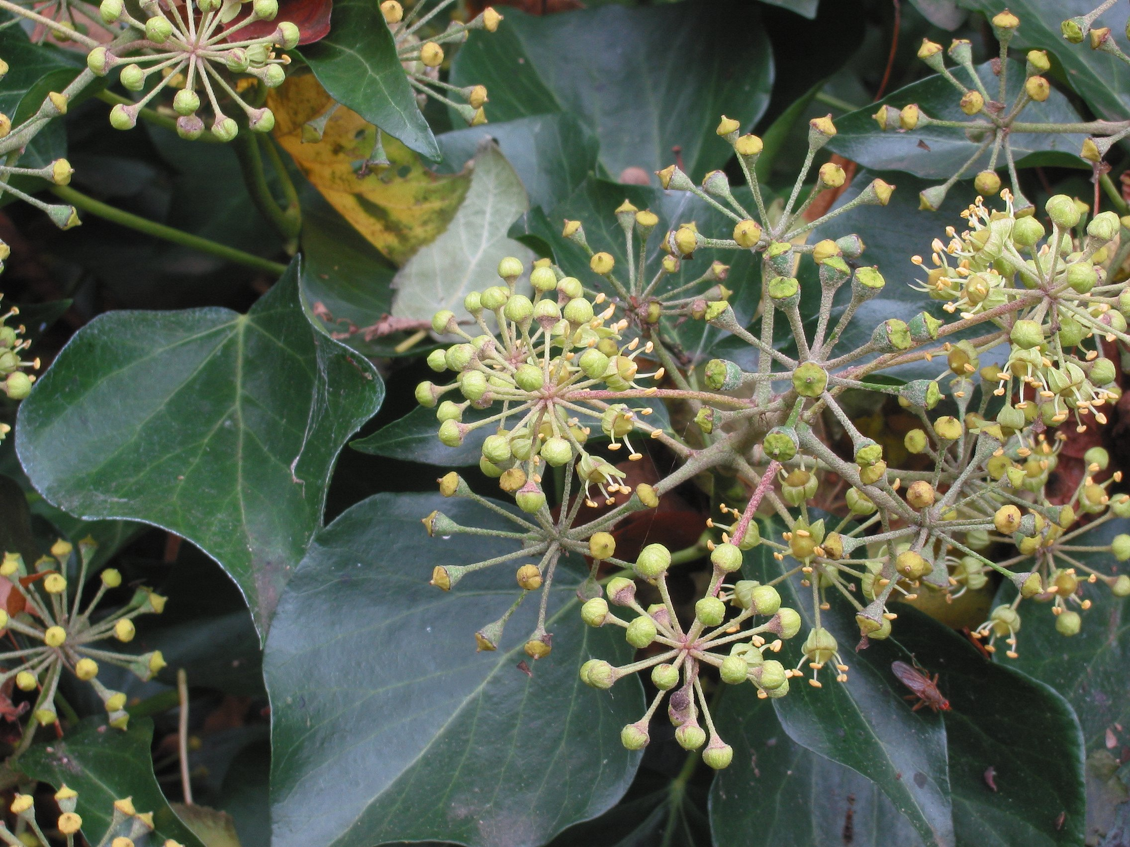 Hedera helix flowers; cultivated.